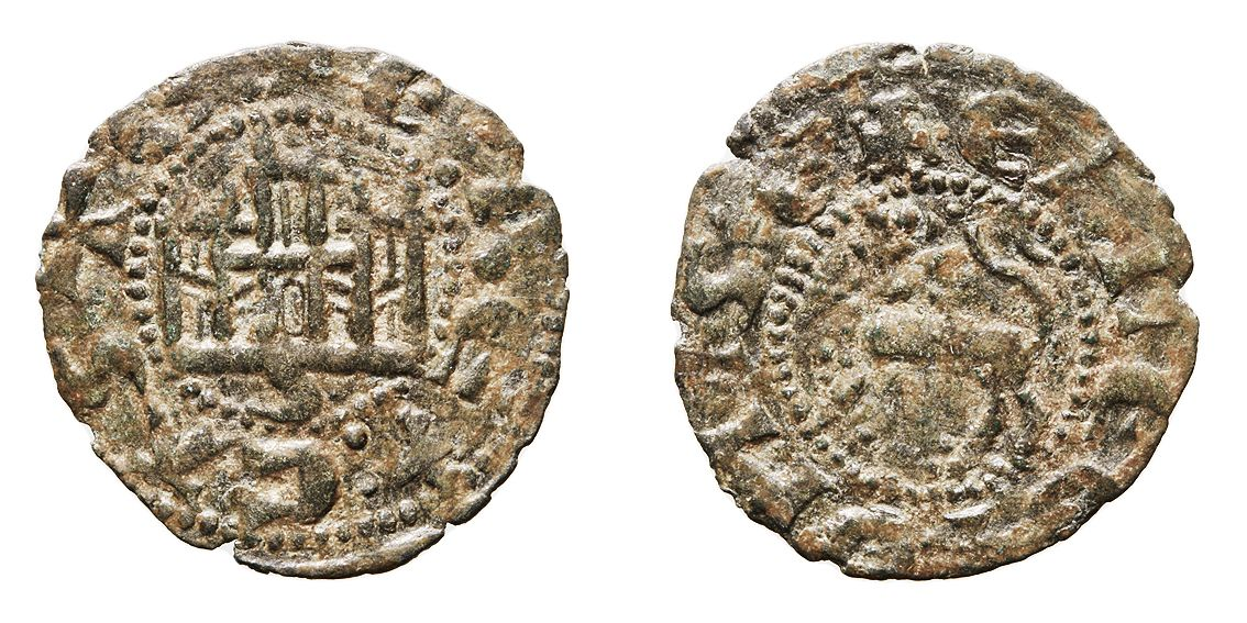 Castilian dinero, billon coin minted by infant Henry "the Senator" during the minority of king Ferdinand IV of Castile (1295-1301). Minted in Seville.